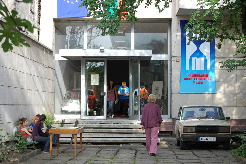 National polytechnic museum - Sofia, Bulgaria